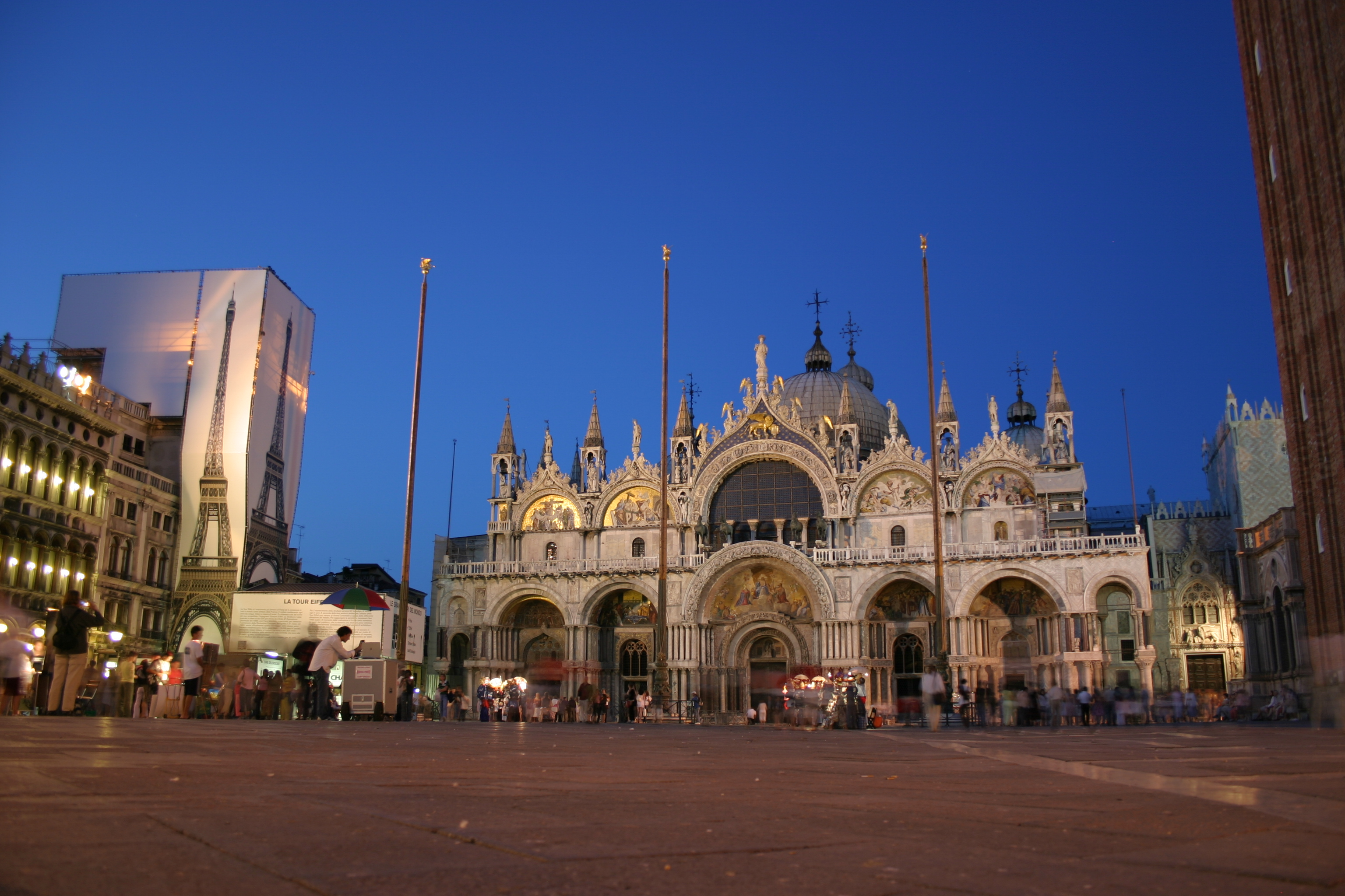 Author: Casey Muller (caseymrm) Date taken: July 9th, 2005 Camera: Canon Digital Rebel Web